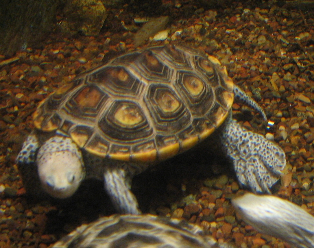 Malaclemys terrapin (Diamondback Terrapin)